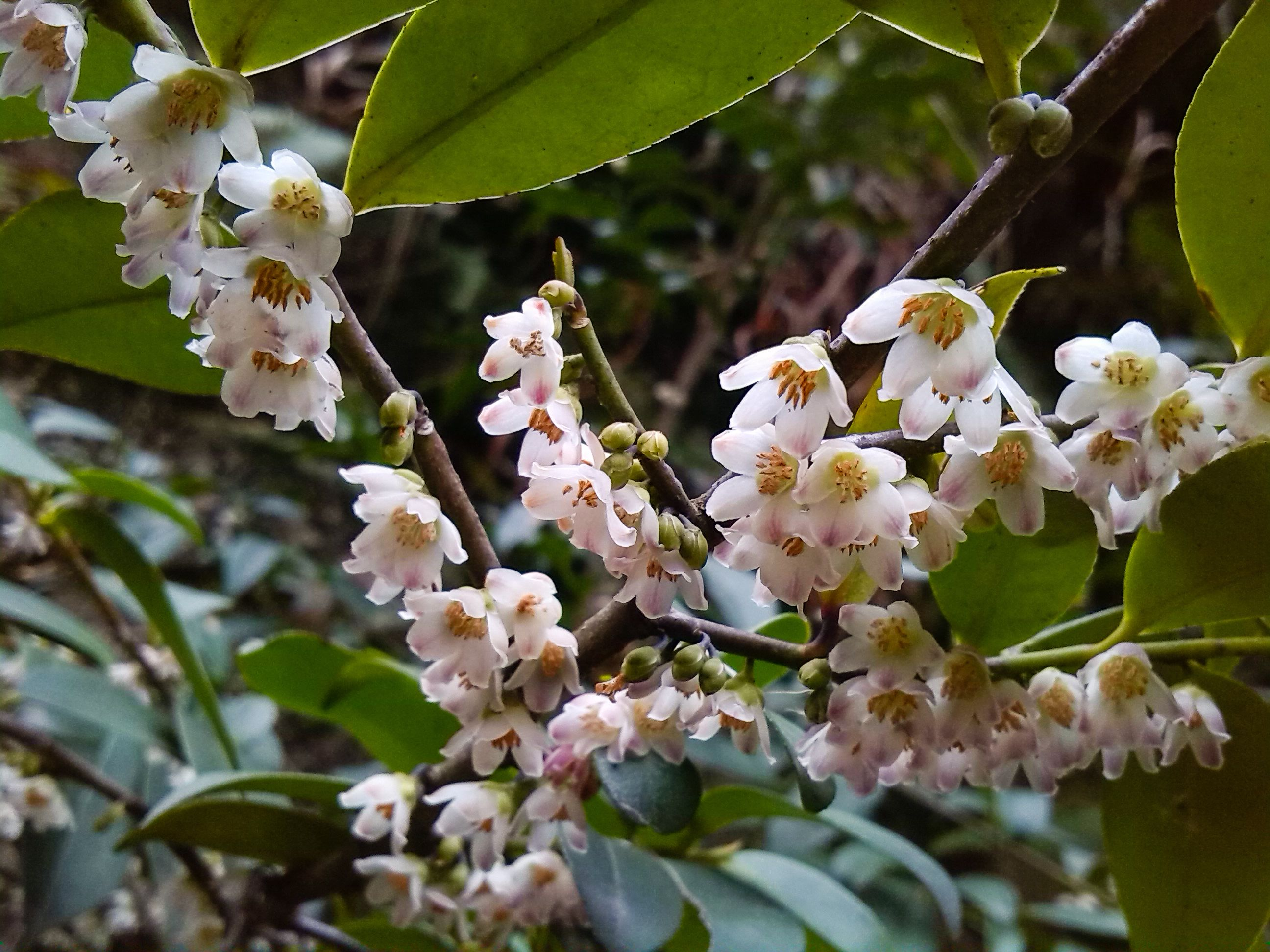 Eurya muricata, Wukeng Township, Qingtian County, Zhejiang Province